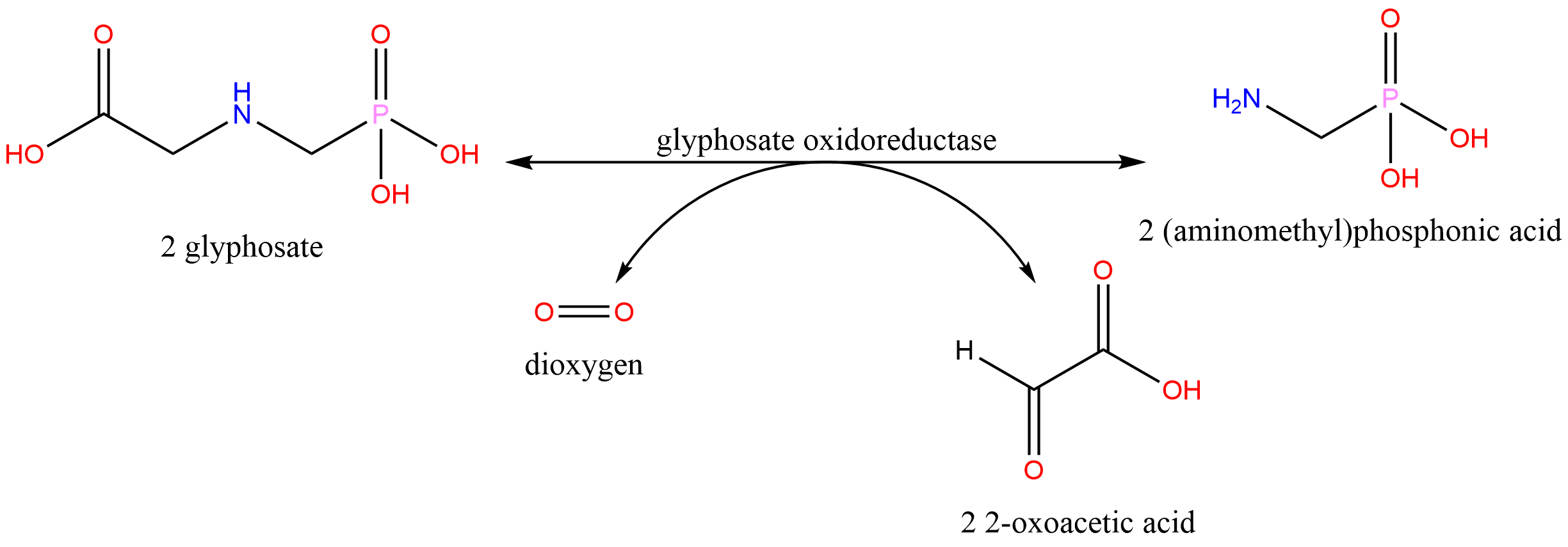 Metabolisation of glyphosate.